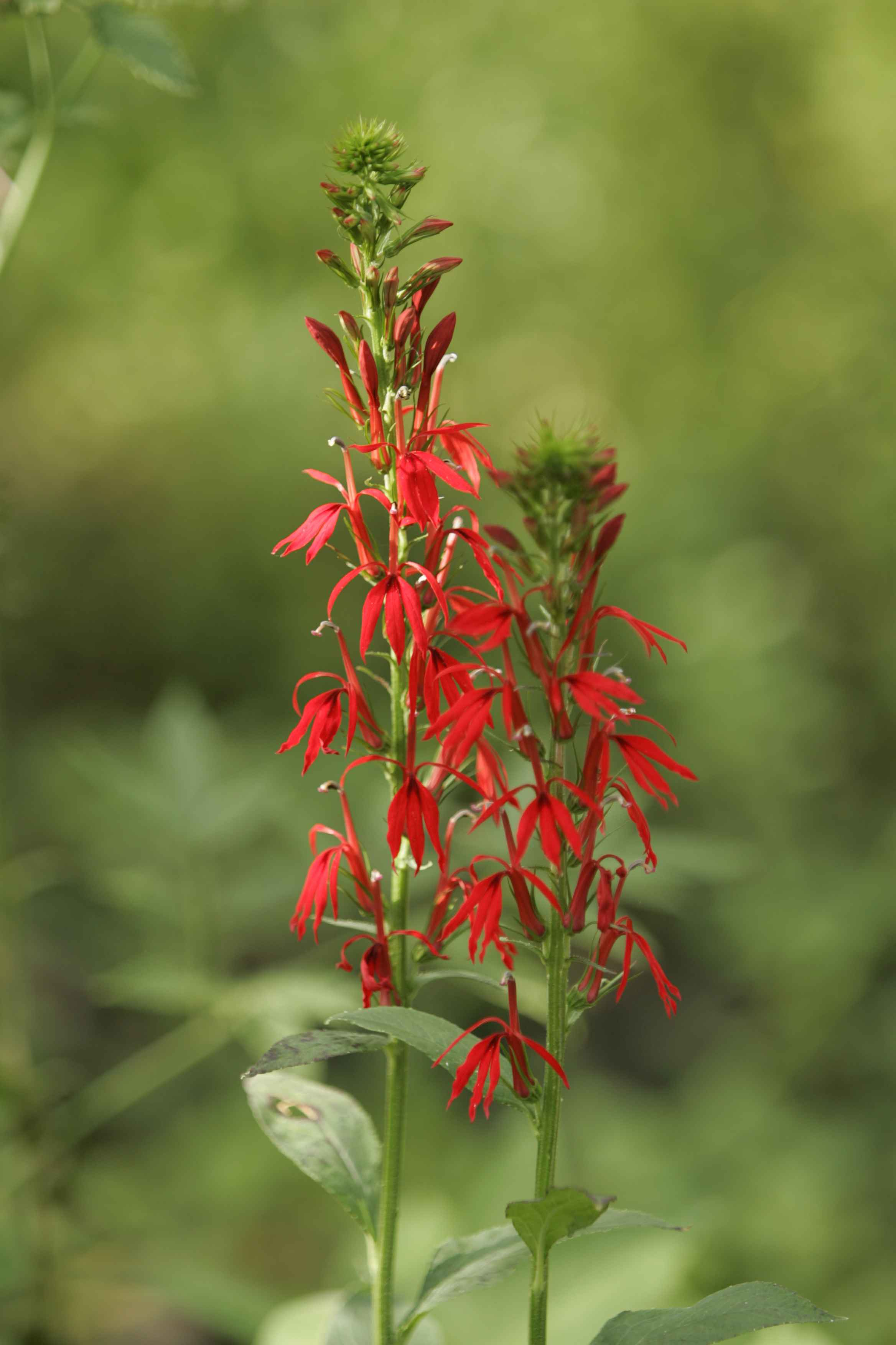 Image title: Cardinal flower flowering plant Image from Public domain images website